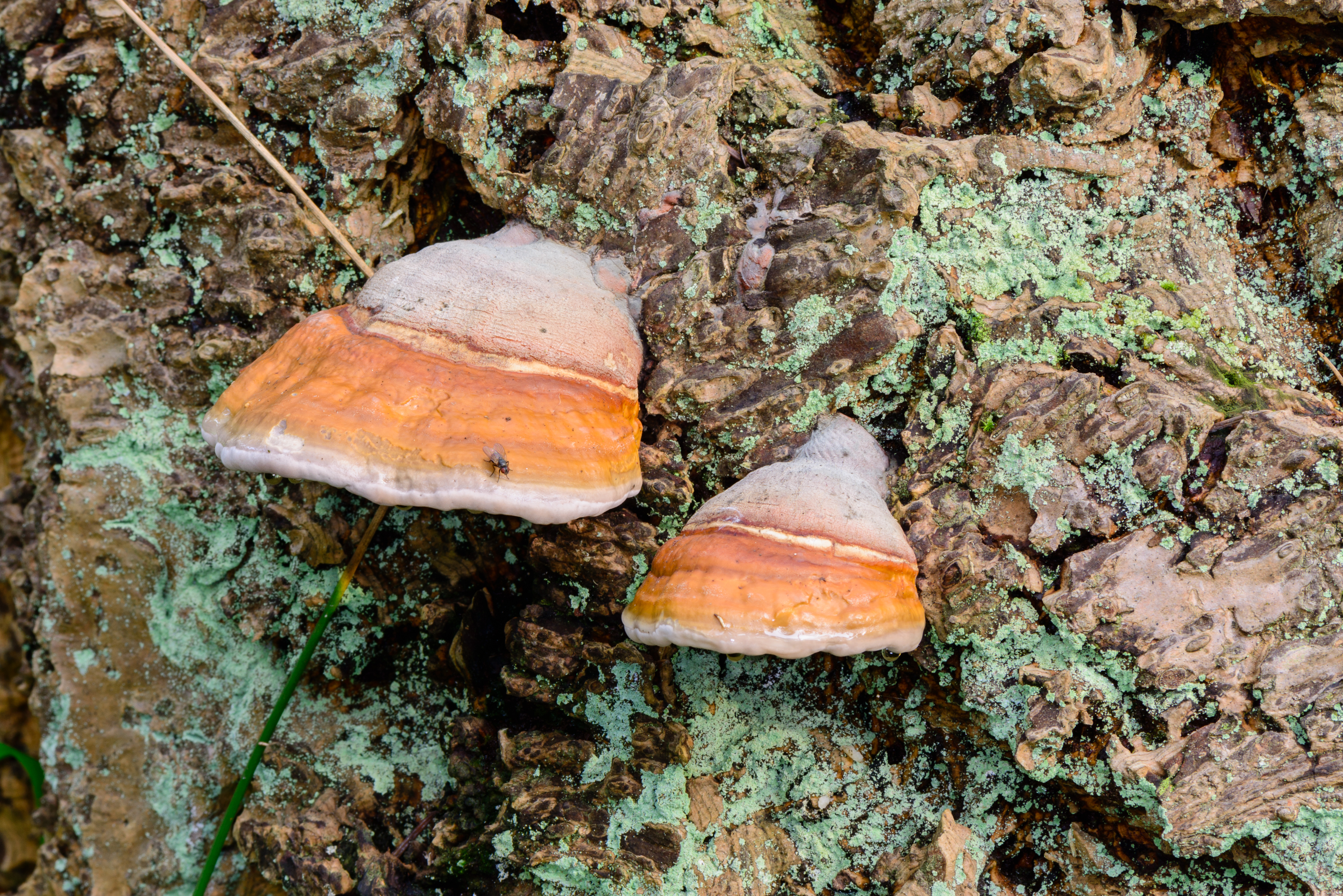 Red Banded Polypore (Fomitopsis pinicola), Hesse, Germany.